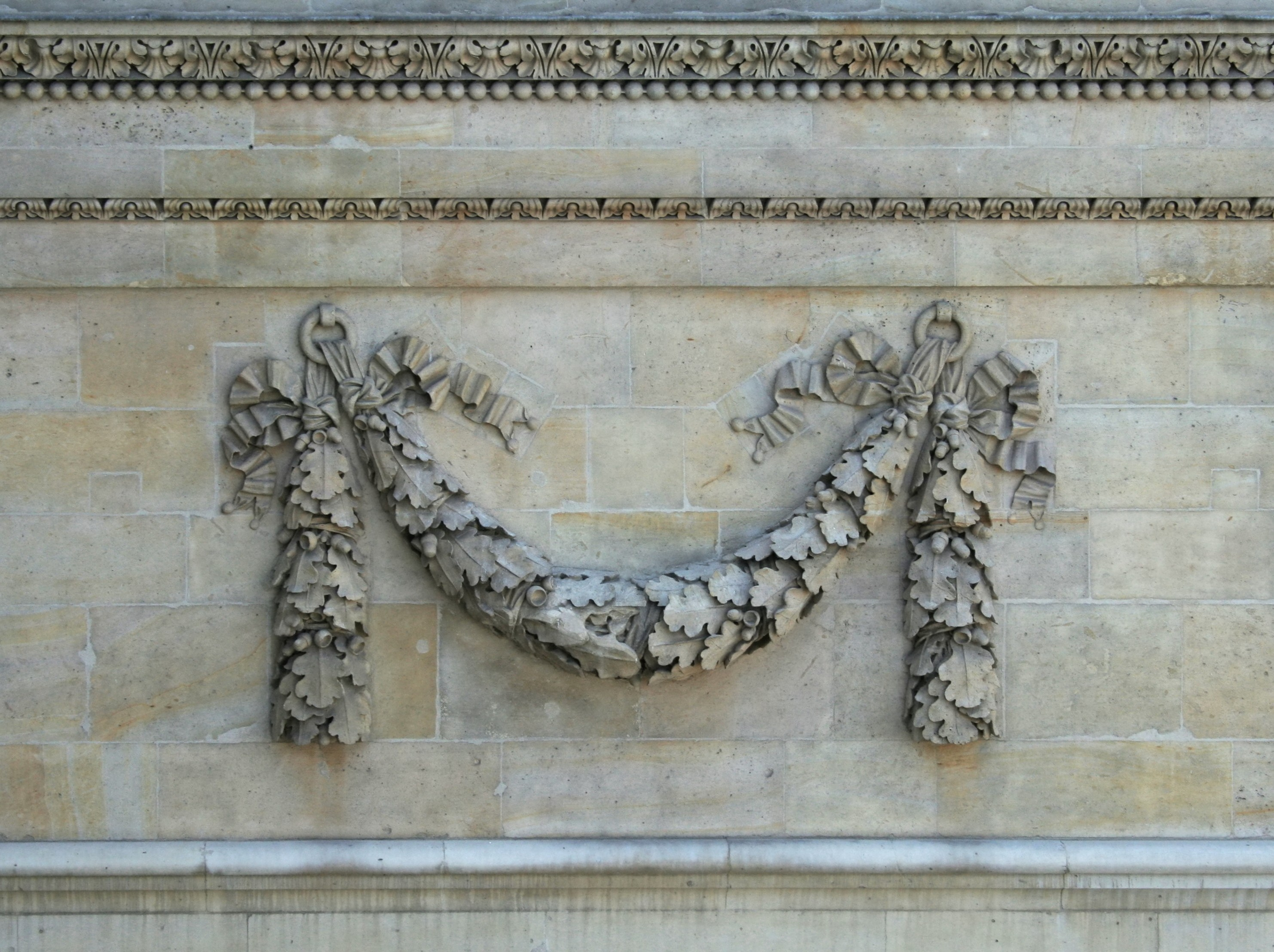 Oak garland of the Panthéon de Paris.